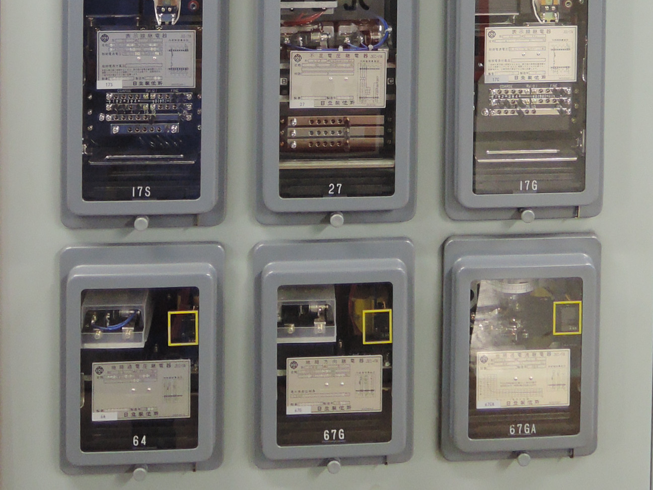 Old form of protective relays on a line protection unit. Now they have been replaced by digital relays since 1990s.